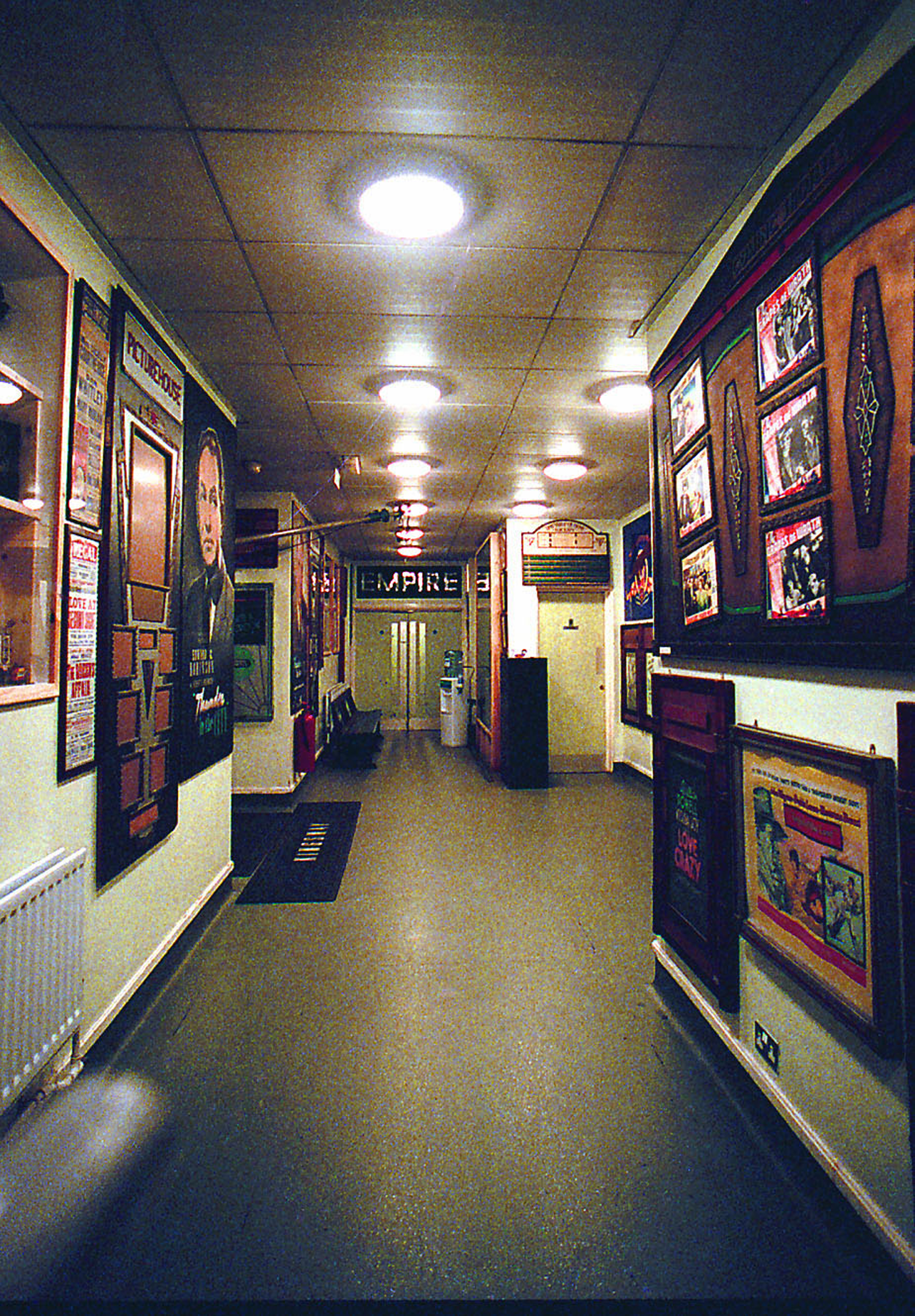 Exhibits on wall of Cinema Museum